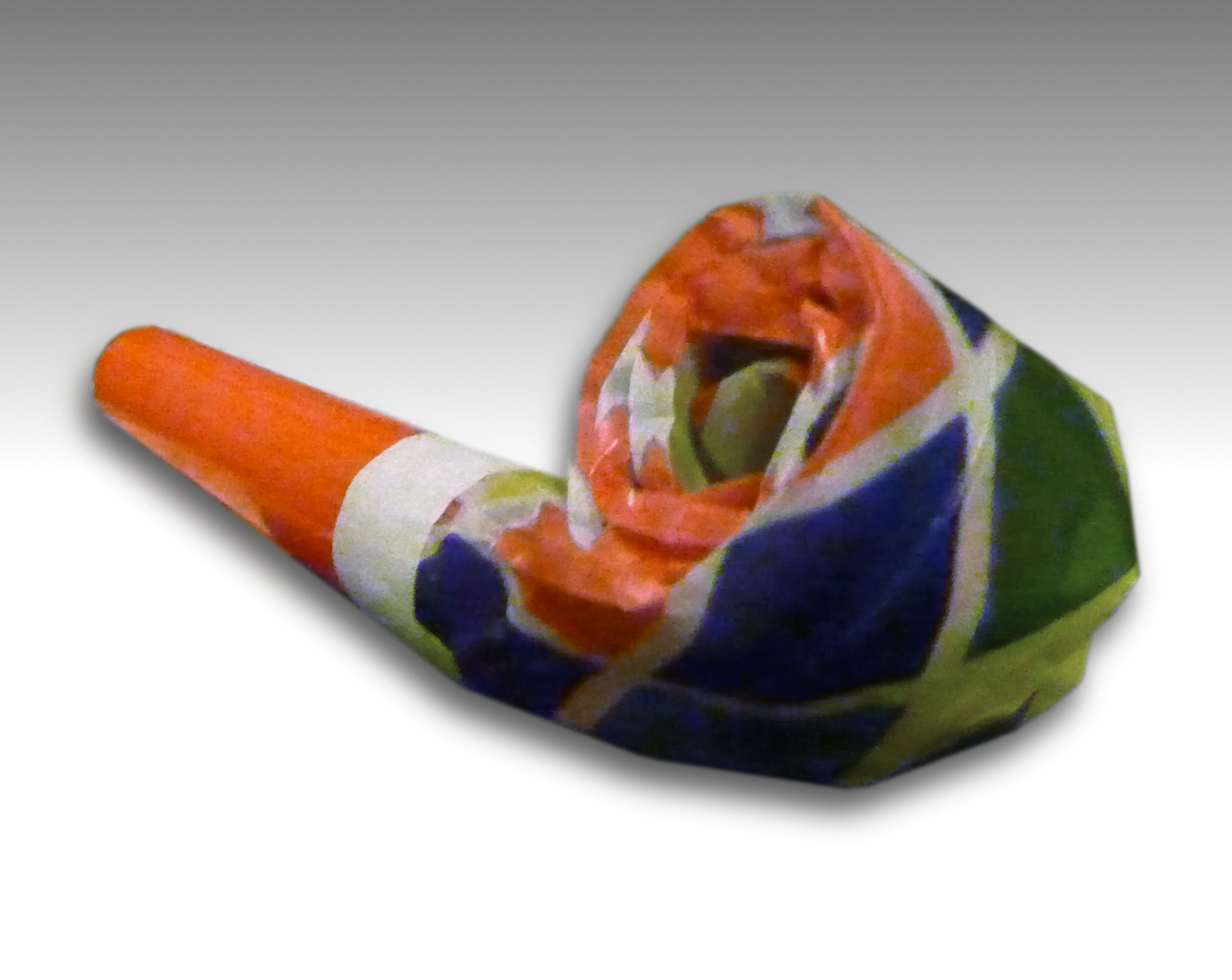 Party horn